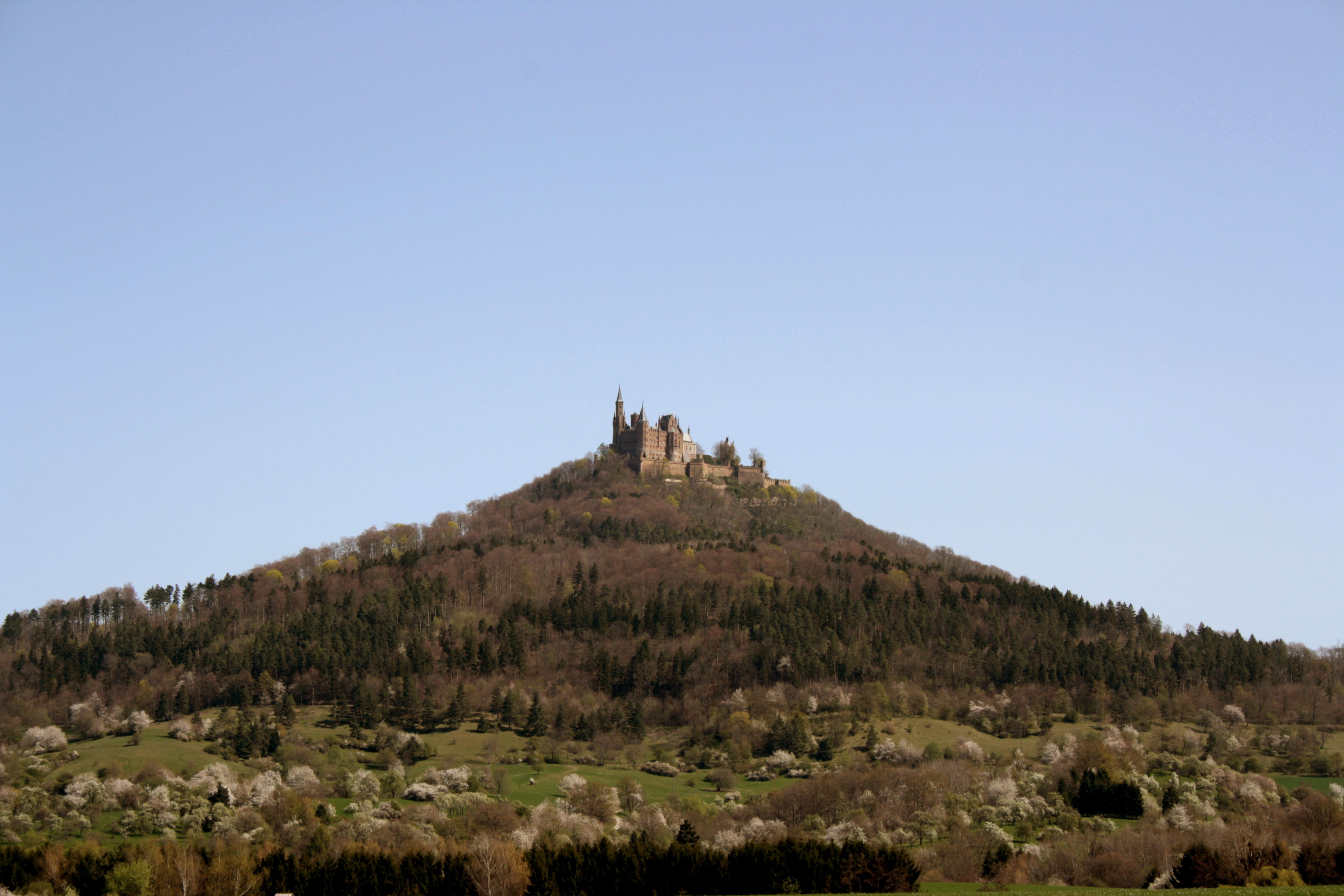 A far-away-view of hohenzoller castle